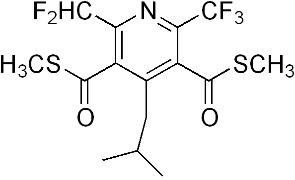 chemical structure of dithiopyr